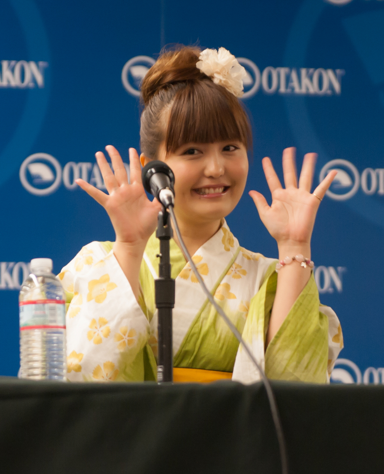 Aipon(Ai nonaka) Panel (2) (cropped)